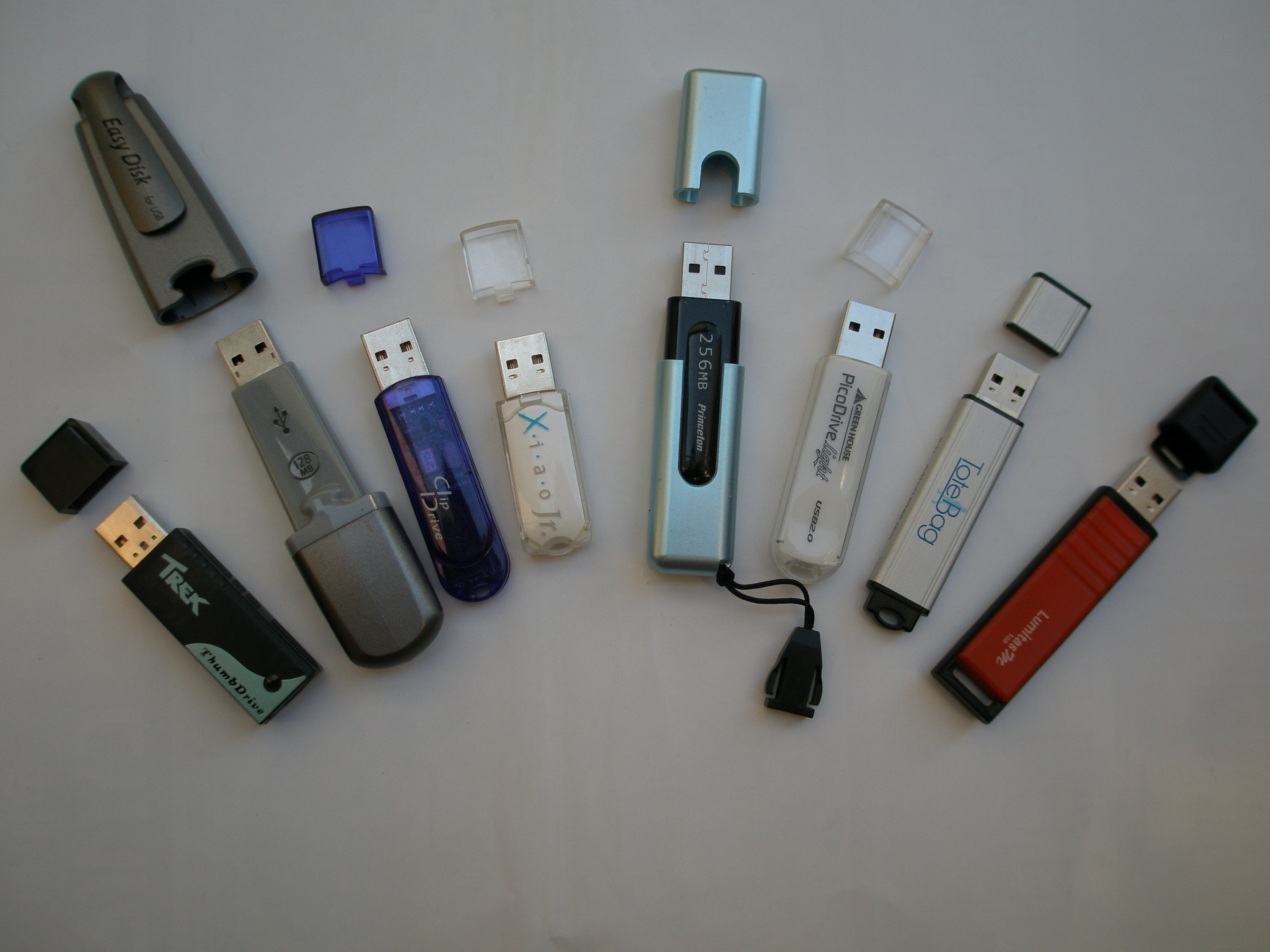 Mass storage device for PC. USB flash drives.